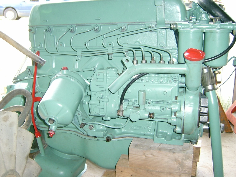 Injectionside of an OM 353